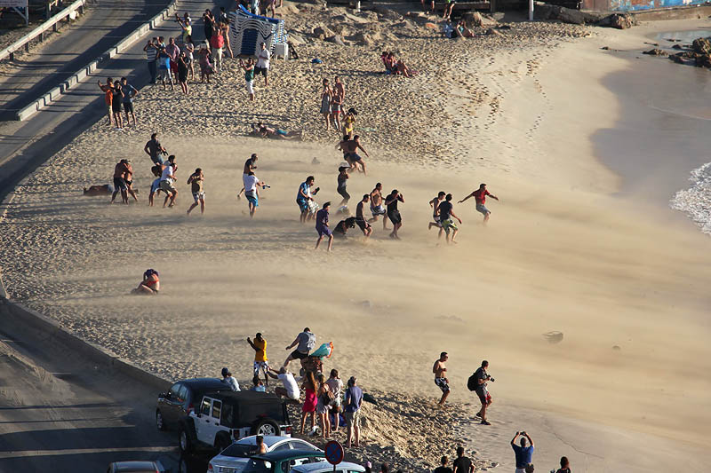 Jetblast at Maho Beach.